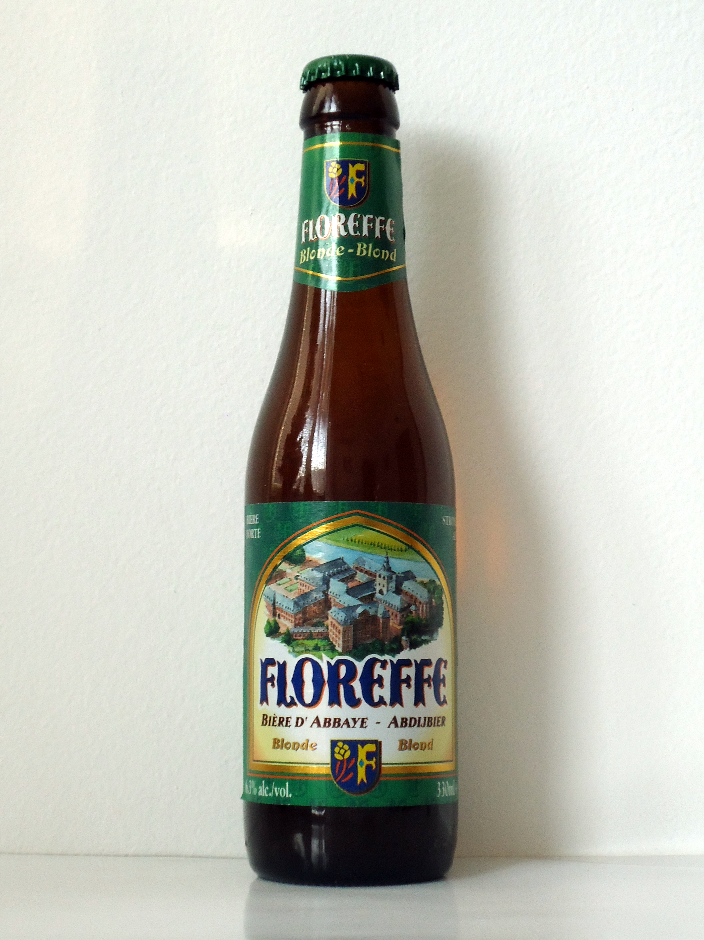 Floreffe Blond